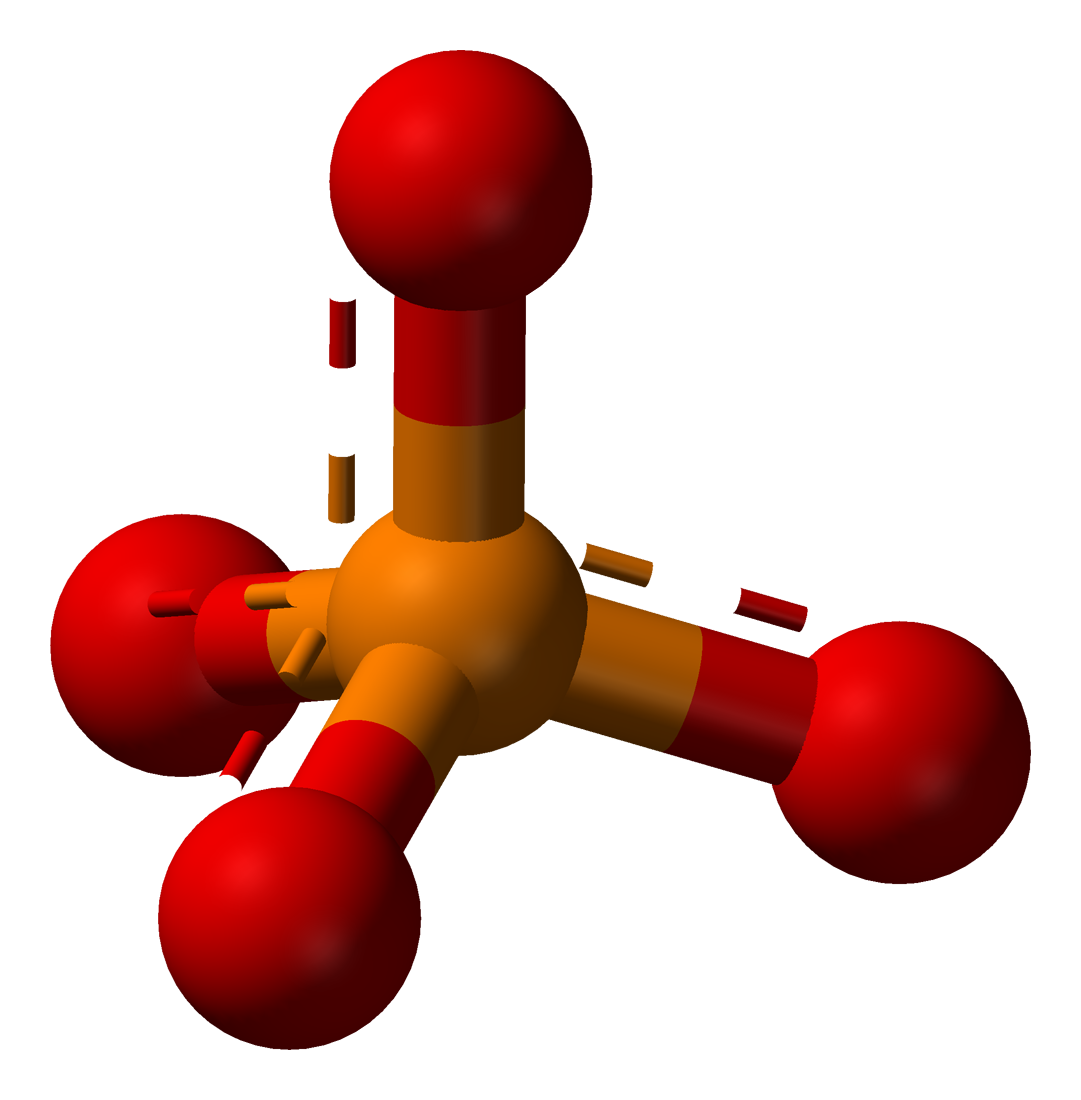 Ball and stick model of Phosphate molecule. (Standard colour: Phosphorus in Gold, Oxygen in Red)